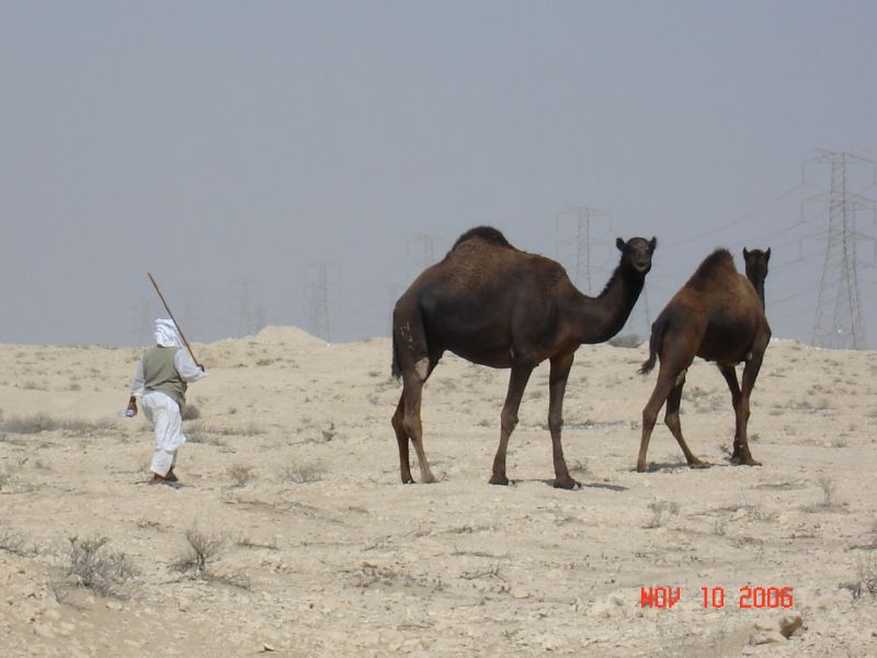 A bedouin herding his camels in Dukhan, western Qatar.